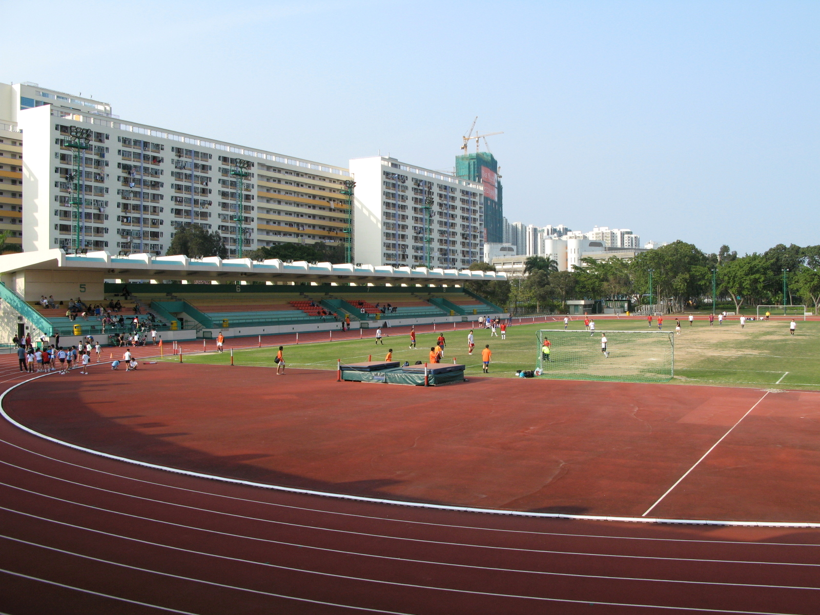 沙田運動場球場草坪及跑道 Sha Tin Sports Ground Patch & Runways